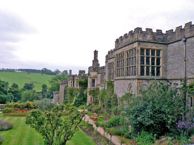 Southeast elevation, Haddon Hall